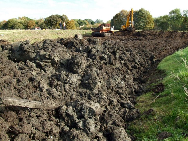 Site of Bolingbroke Castle and Rout Yard, Old Bolingbroke. Leveling off.